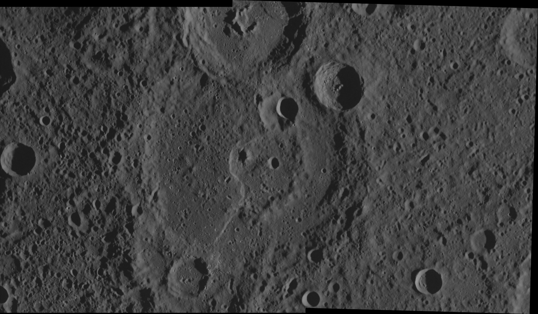 Mosaic showing Sinan crater on Mercury. Two MESSENGER Wide Angle Camera images (EW0228285058G, EW0228328260G). North is up. Emission Angle: 7.5 Incidence Angle: 80 Latitude: 15.4 Longitude: 329.2 Phase Angle: 81